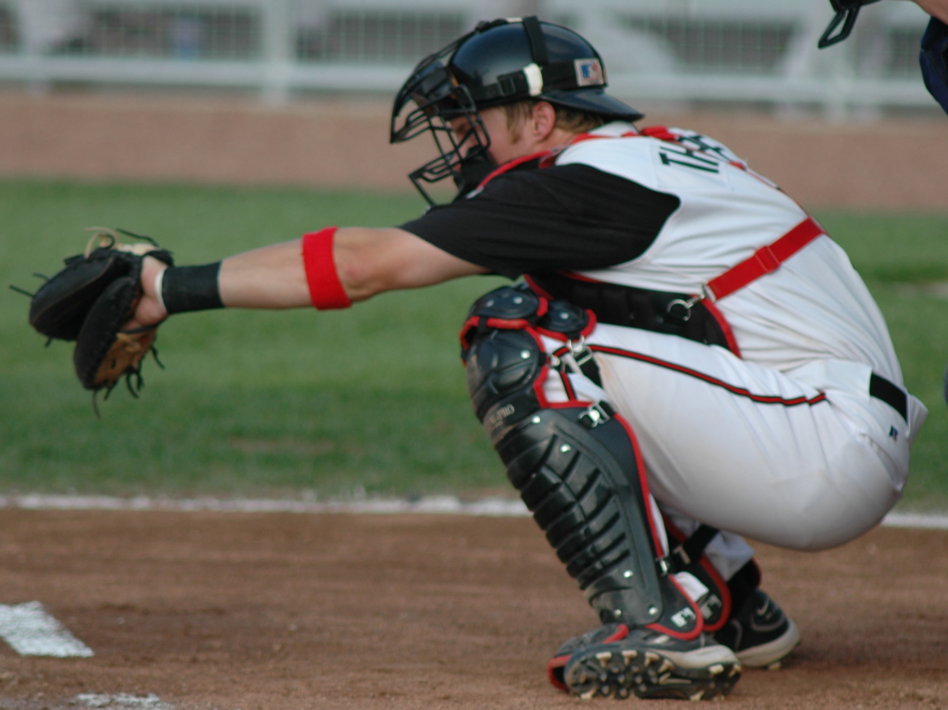 Southwest Michigan @ Lansing 062805